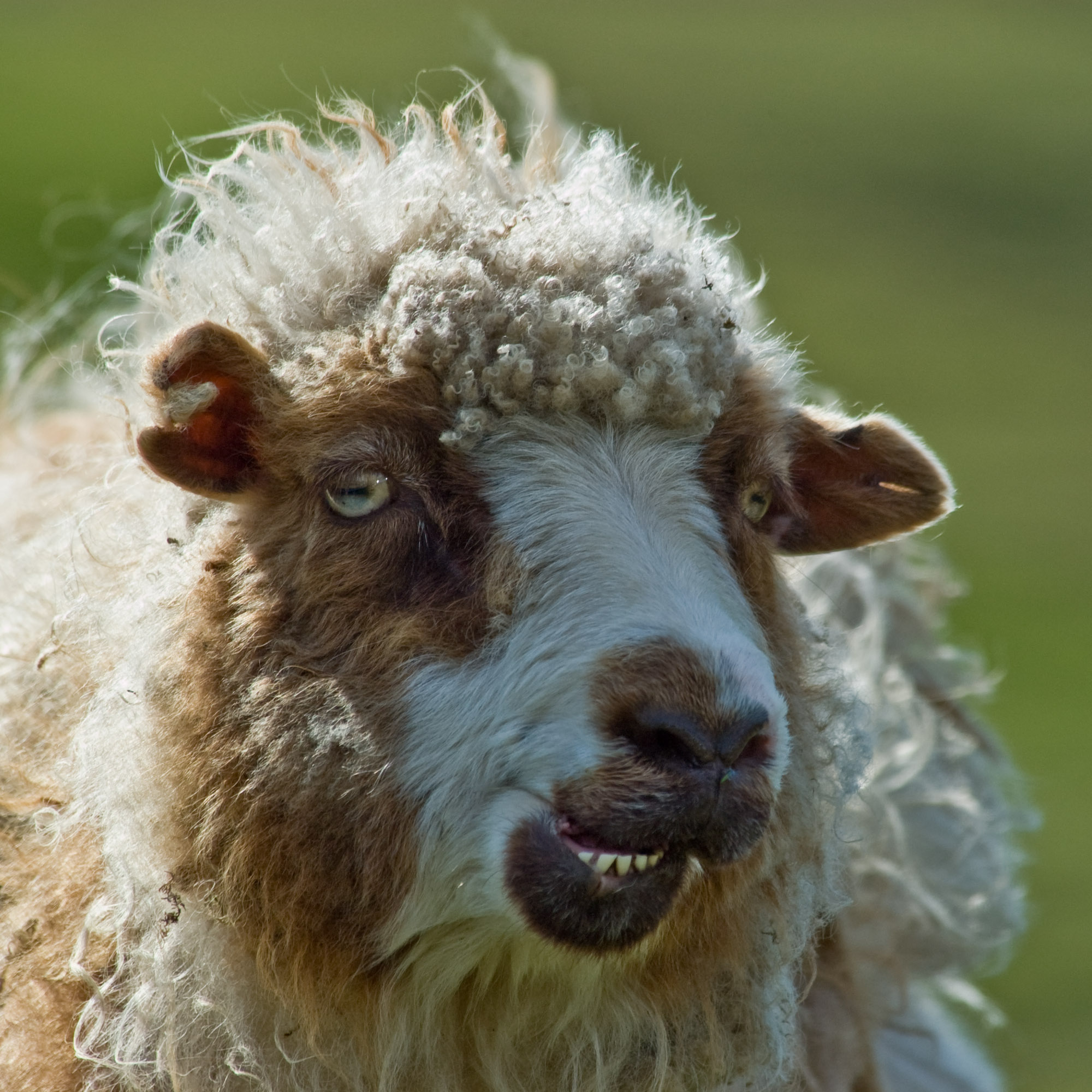 First time, my old D100 came to operation in the Faroes. Also my first one with Elmar's 80-400 VR